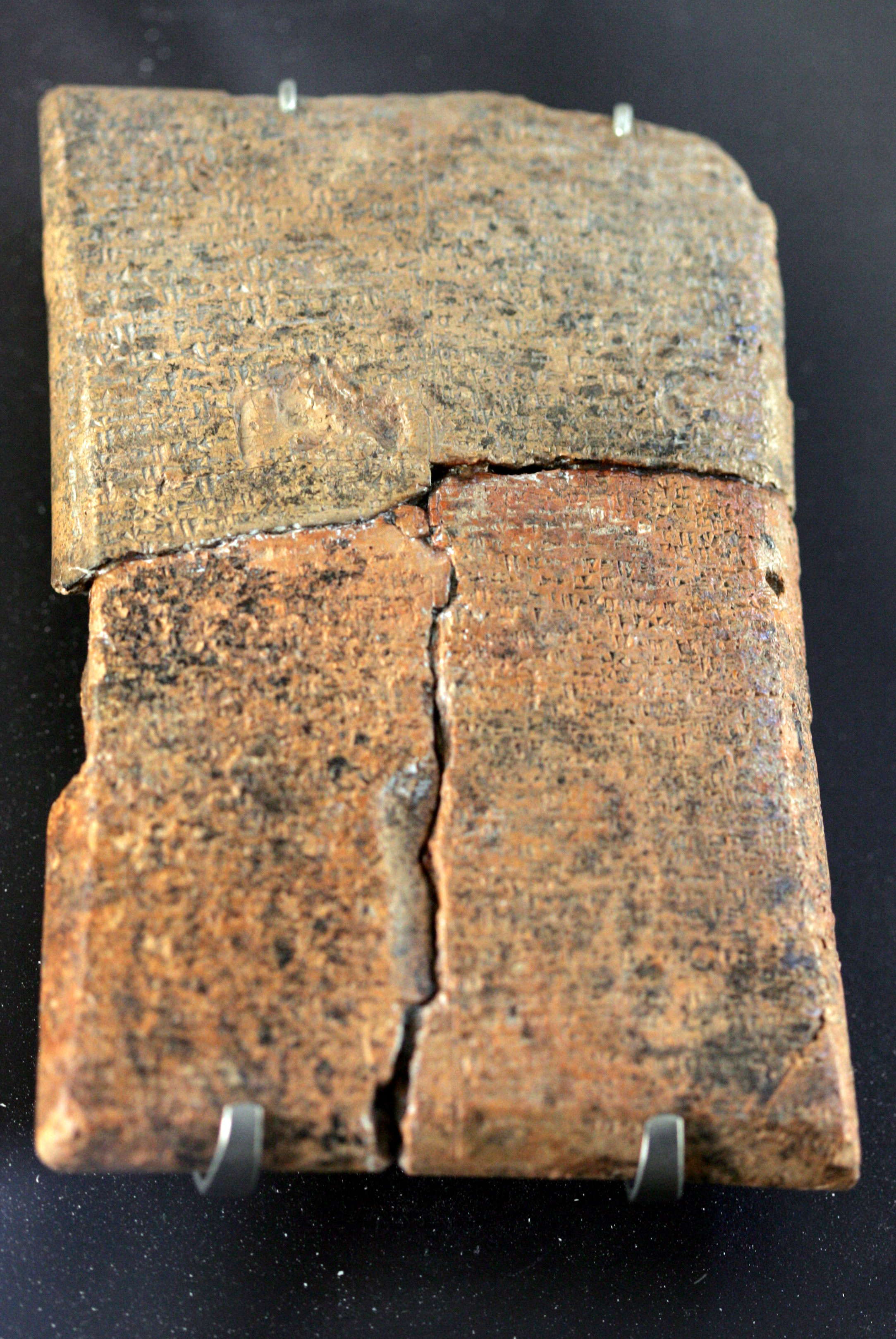 ArtistUnknownDescription Tablet: epic of Danel and his son Aqhat Current location (Inventory)Louvre Museum Native nameMusée du LouvreLocationParisCoordinates48° 51′ 37″ N, 2° 20′ 15″ E Established1793Website control : Q19675 VIAF: 257711507 ISNI: 0000 0001 2260 177X ULAN: 500125189 LCCN: n80020283 NLA: 35912436 WorldCat Sully Rez-de-chaussée Levant : Syrie côtière, Ougarit et Byblos Salle BAccession numberAO 17323ReferencesLouvre.frSource/PhotographerRama Tablet: epic of Danel and his son Aqhat